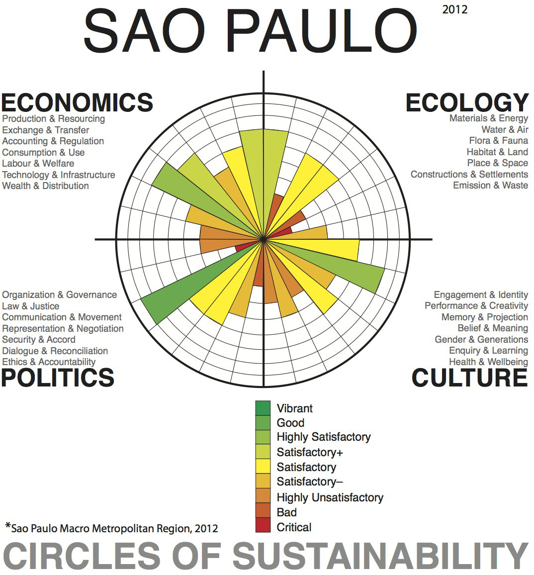 Urban sustainability analysis of the greater urban area of the city using the 'Circles of Sustainability' method of the UN Global Compact Cities Programme